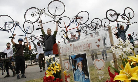 Memorial street stenciling and ghost bike campaign help lead to safer urban design. Street stenciling began in 1998 and the placement of Ghost Bikes began in 2005.